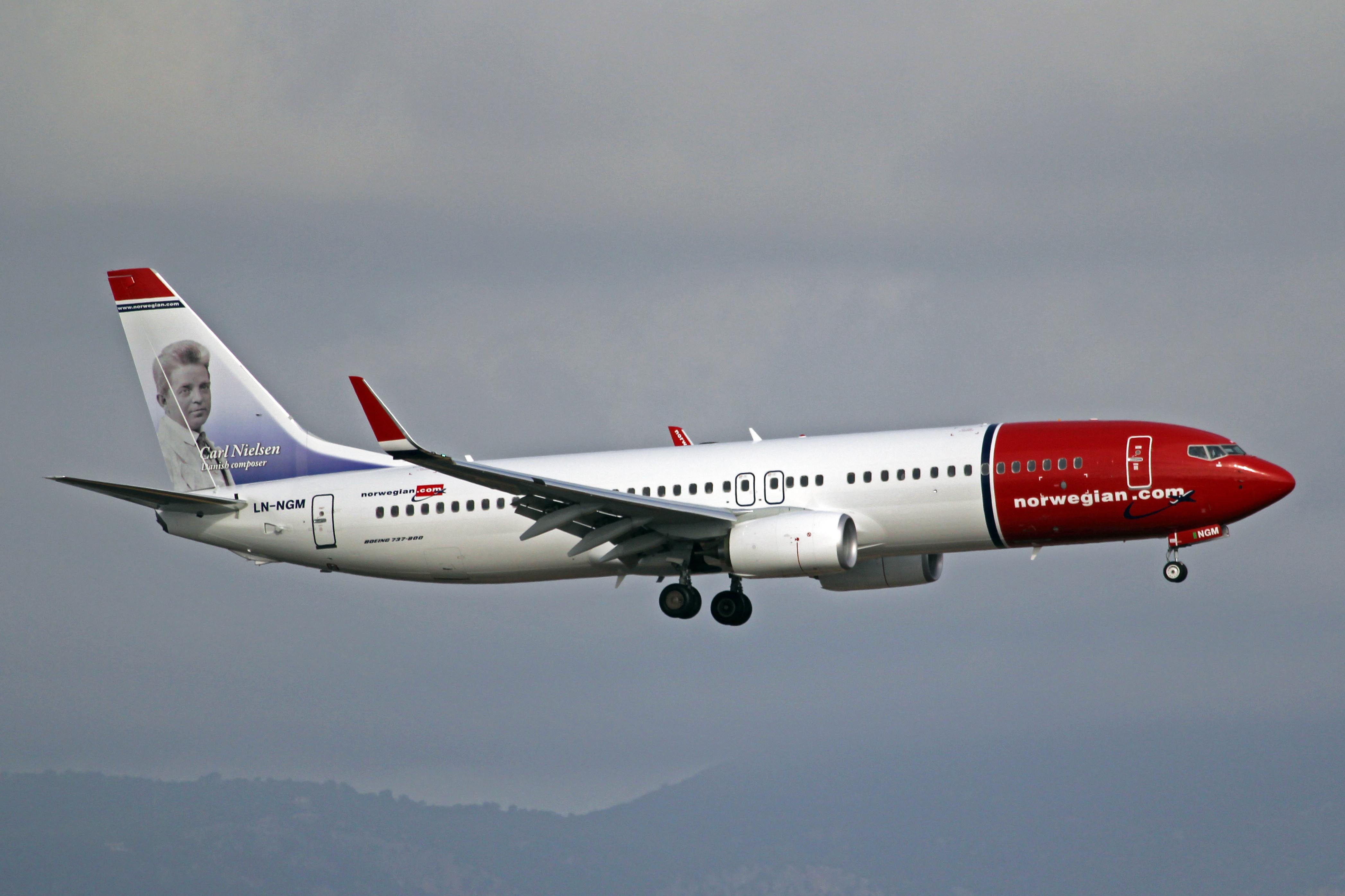 'Carl Neilsen - Danish Composer' tail c/scheme. Latest delivery (up to now) for Norwegian, 16-Sep-13